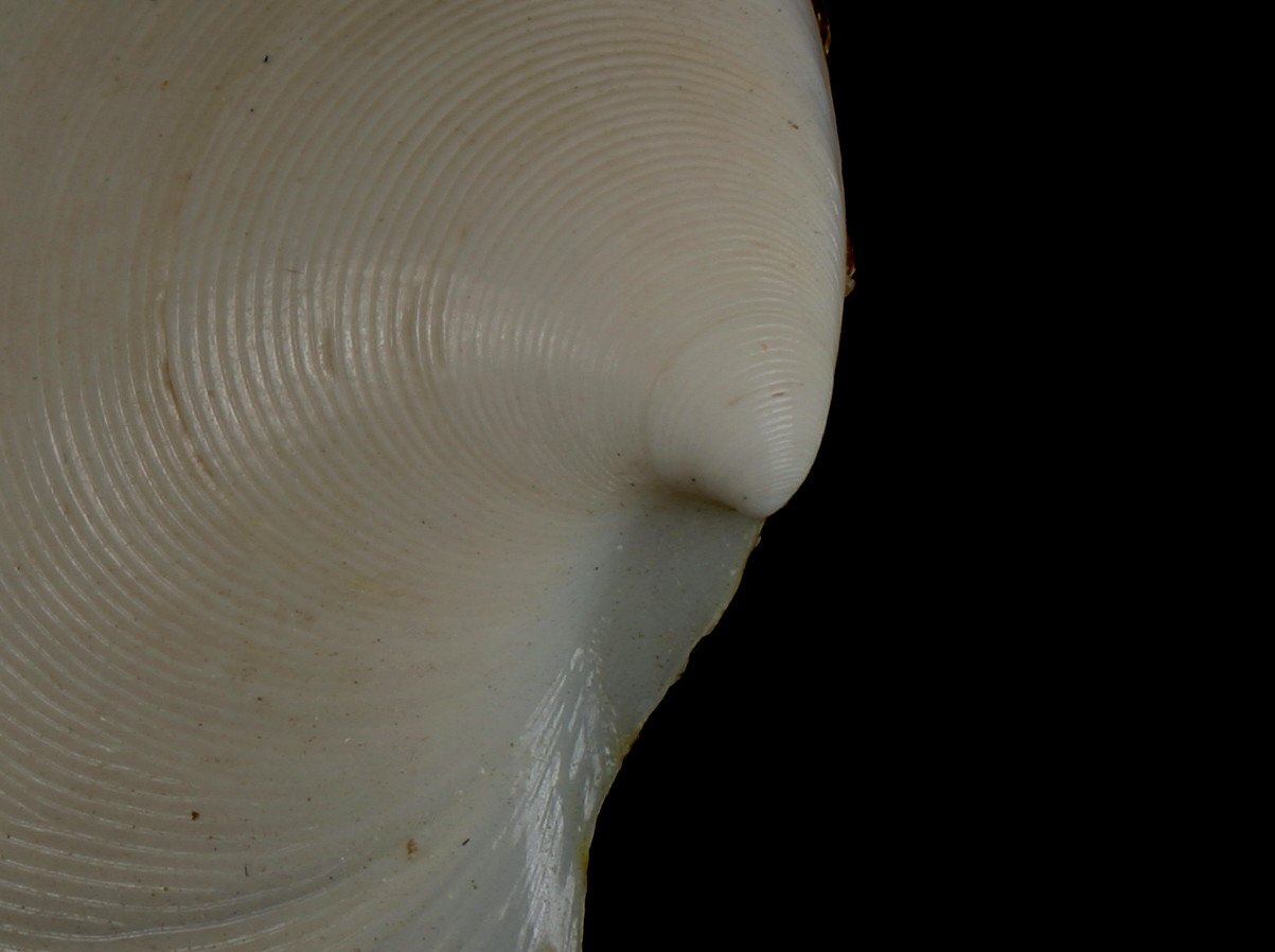 Veneridae: Dosina japonica umbo view of prodissoconch